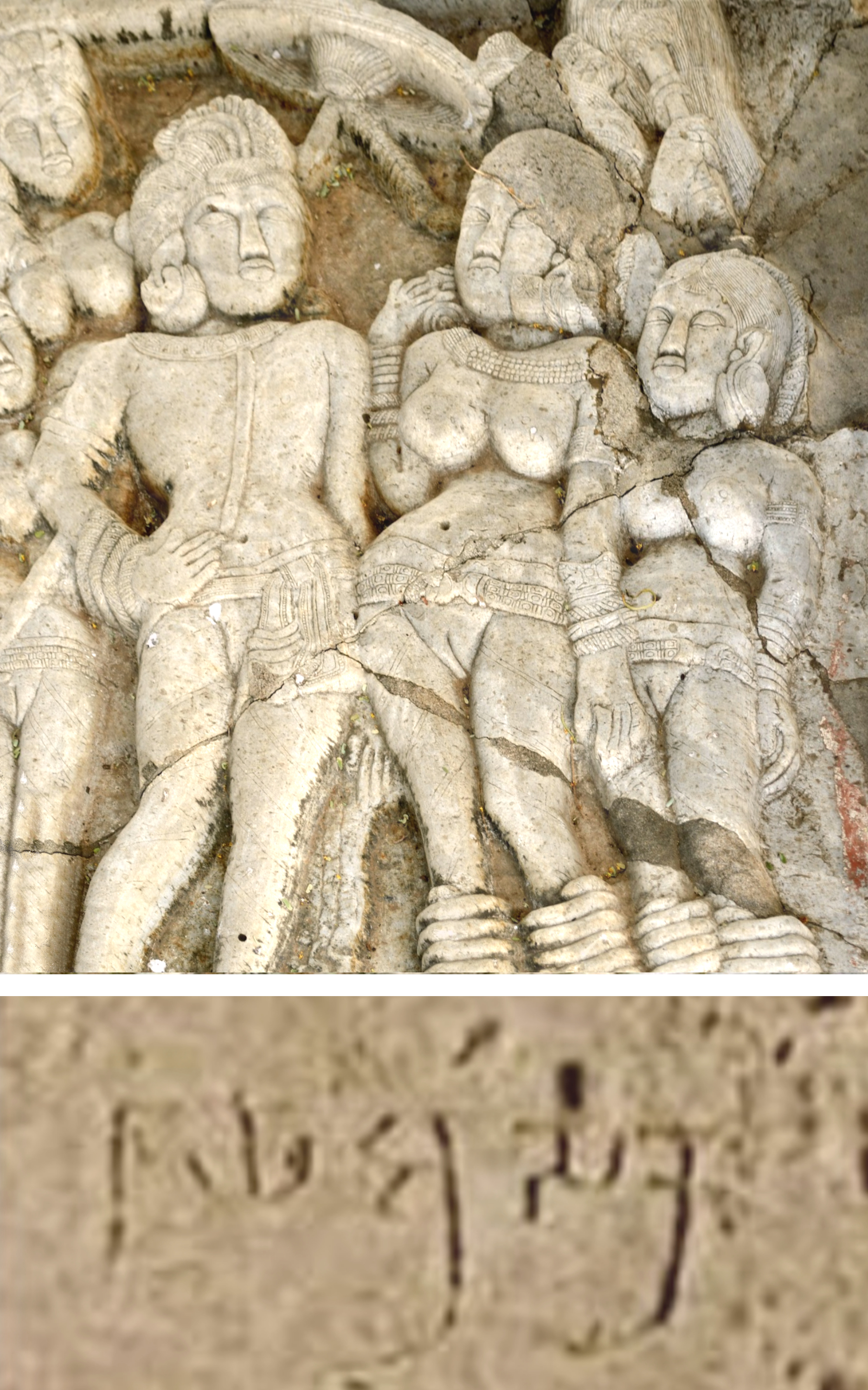 Kanaganahalli Asoka with inscription